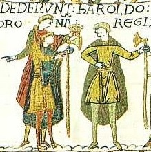 Cropped panel of Bayeux Tapestry showing king Harold Godwinson